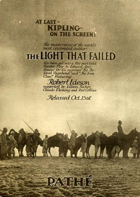 Advertisement in Moving Picture World